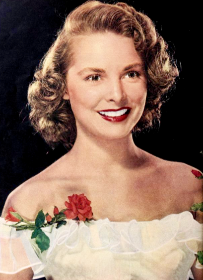 from Photoplay (Feb. 1950)